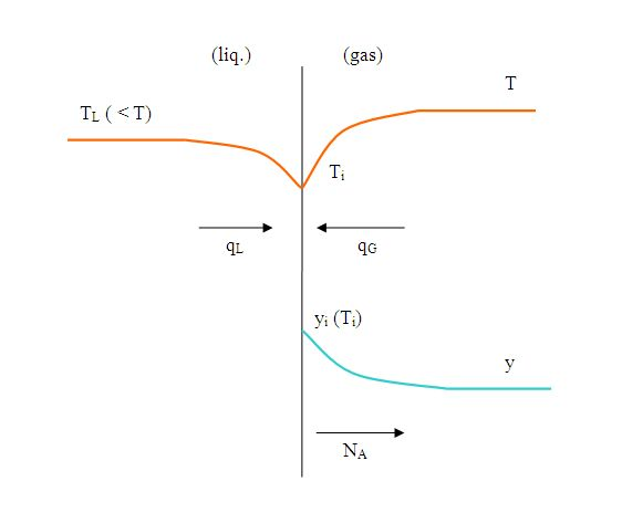 Temperature and concentration profiles at gas-liquid interface during wet-bulb temperature measurement, at initial time t1.